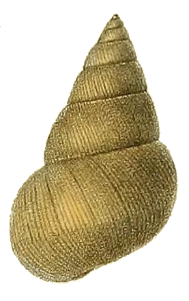 Drawing of an abapertural view of the shell of Sinotaia aeruginosa.